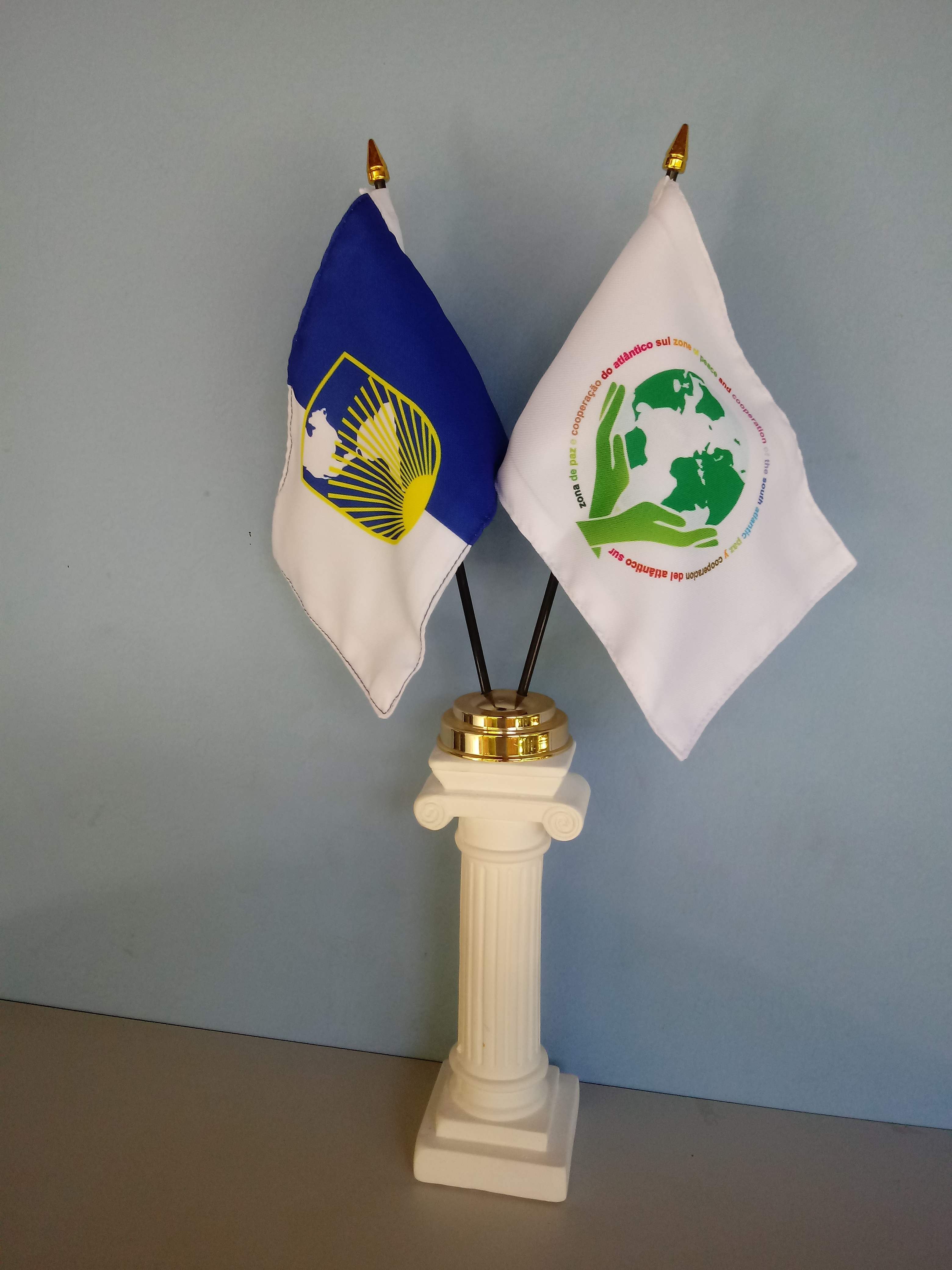 Table flags.